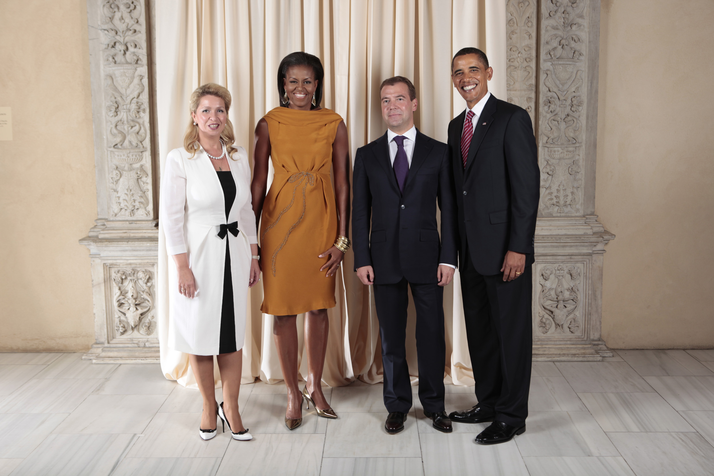 President Barack Obama and First Lady Michelle Obama pose for a photo during a reception at the Metropolitan Museum in New York with Dmitry Medvedev of Russia.